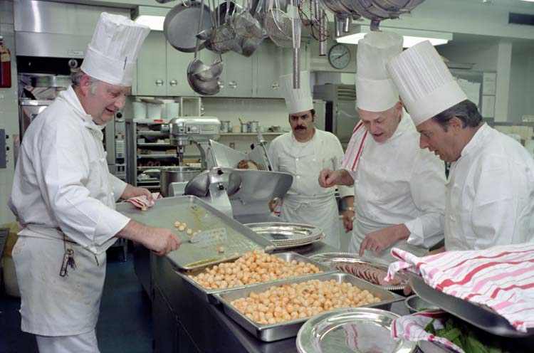 White House chefs, directed by Executive Chef Henry Haller, prepare for a state dinner honoring Australian Prime Minister Malcolm Fraser. The chefs are working in the White House kitchen; the dinner occurred in 1981, during the administration of Ronald Reagan.